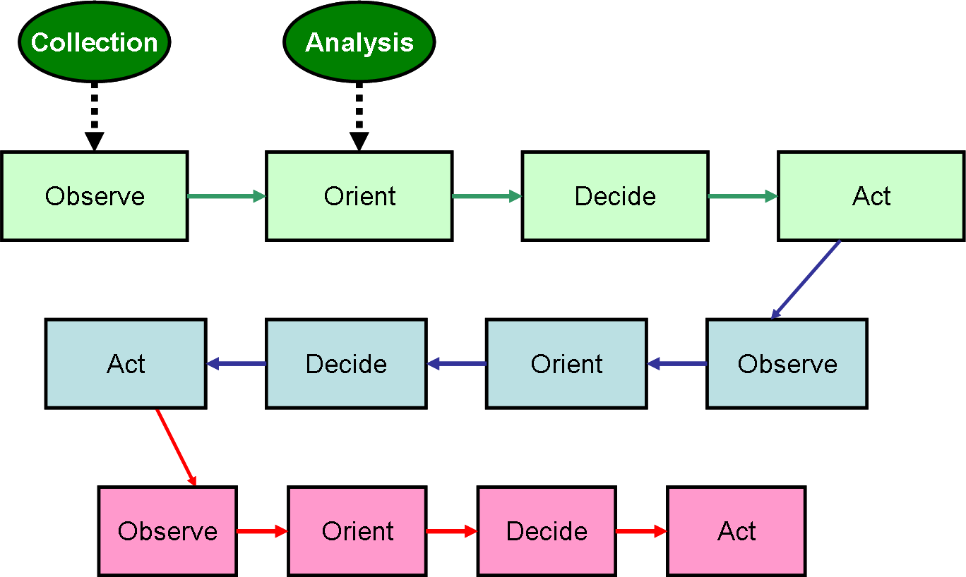 3 iterations of the Boyd OODA loop supplemented with intelligence input